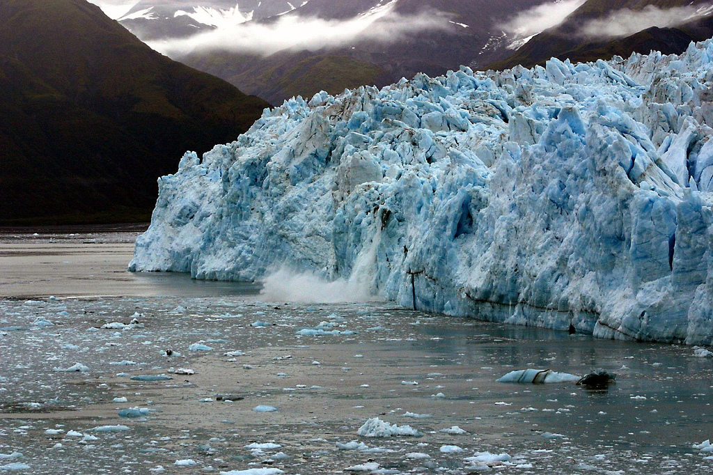 Alaska, September 06. Hubbard Glacier is the longest tidewater glacier on the North American Continent, at 76 miles from its source on Mount Logan in the Yukon Province of Canada to its face in Yakutat and Disenchantment bays in Alaska. The face of Hubbard is almost six miles in length, and has been advancing for about a century. Every day massive blocks of ice 'calve' off the glacier and fall into the sea, forming icebergs that eventually flow out into Yakutat bay and thence to the open sea. This is an amazing sight to see, accompanied by a thunderous roar known locally as 'White Thunder'. First, a sharp 'crack' is heard, followed by a low rumble as tons of ice and rock can be seen tumbling down the ice face into the sea, creating a small tidal wave and throwing up a cloud of debris and ice particles into the air, like a small explosion. The low rubble continues to echo around the bay, bouncing off the mountains. Then total silence, until the procedure starts over again.